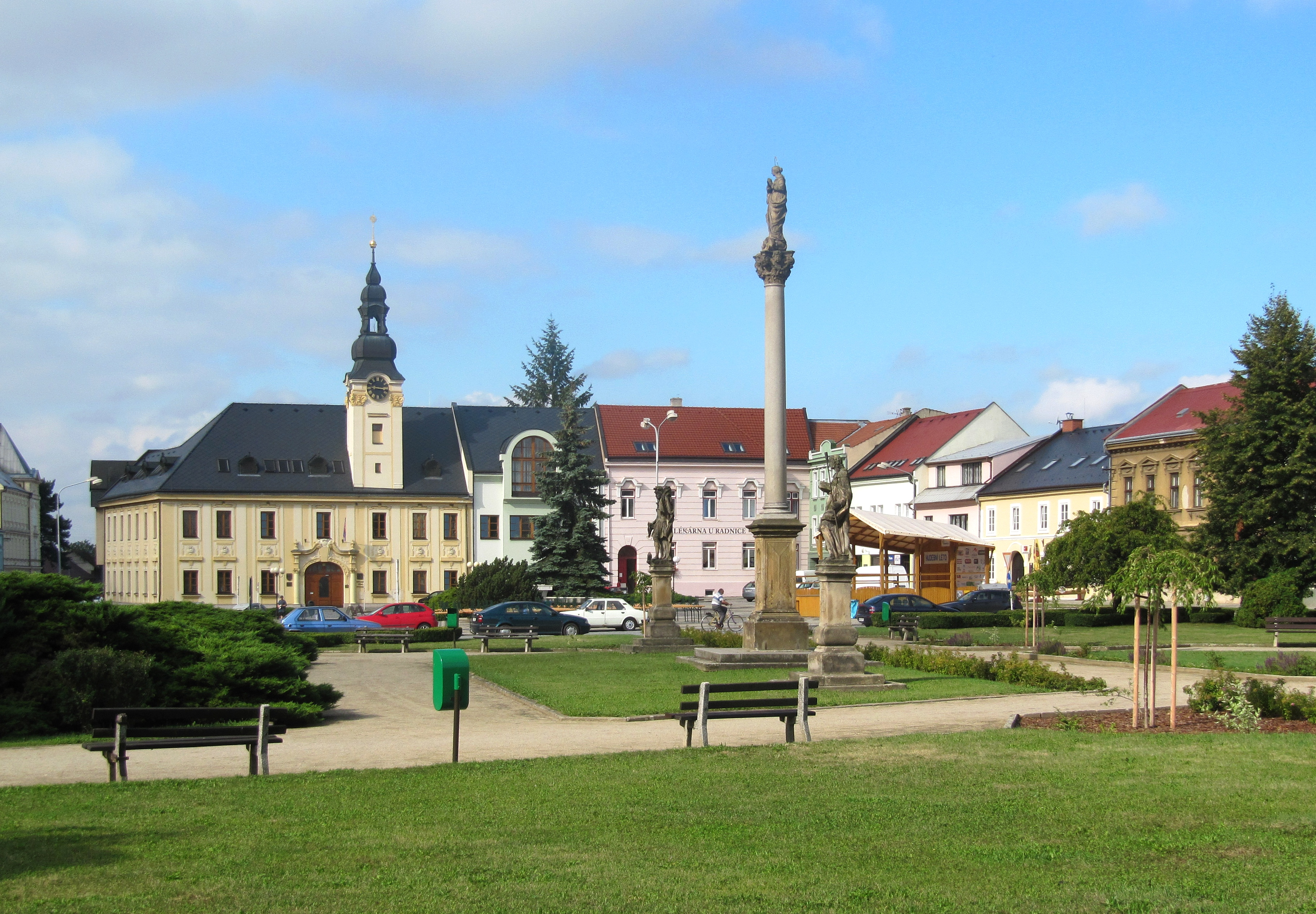 Kojetín, Přerov District, Czech Republic. Square Masarykovo náměstí.